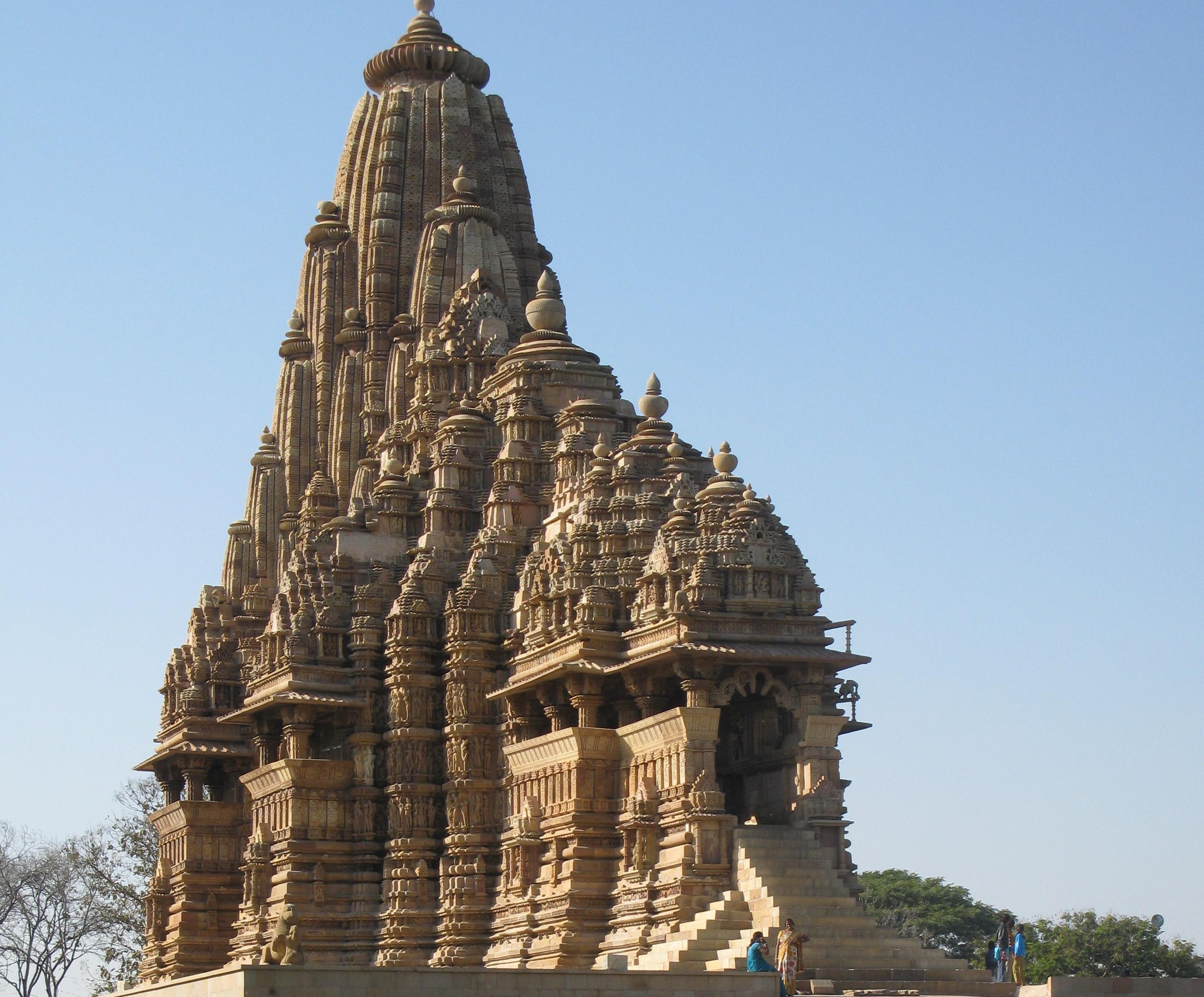 Temple